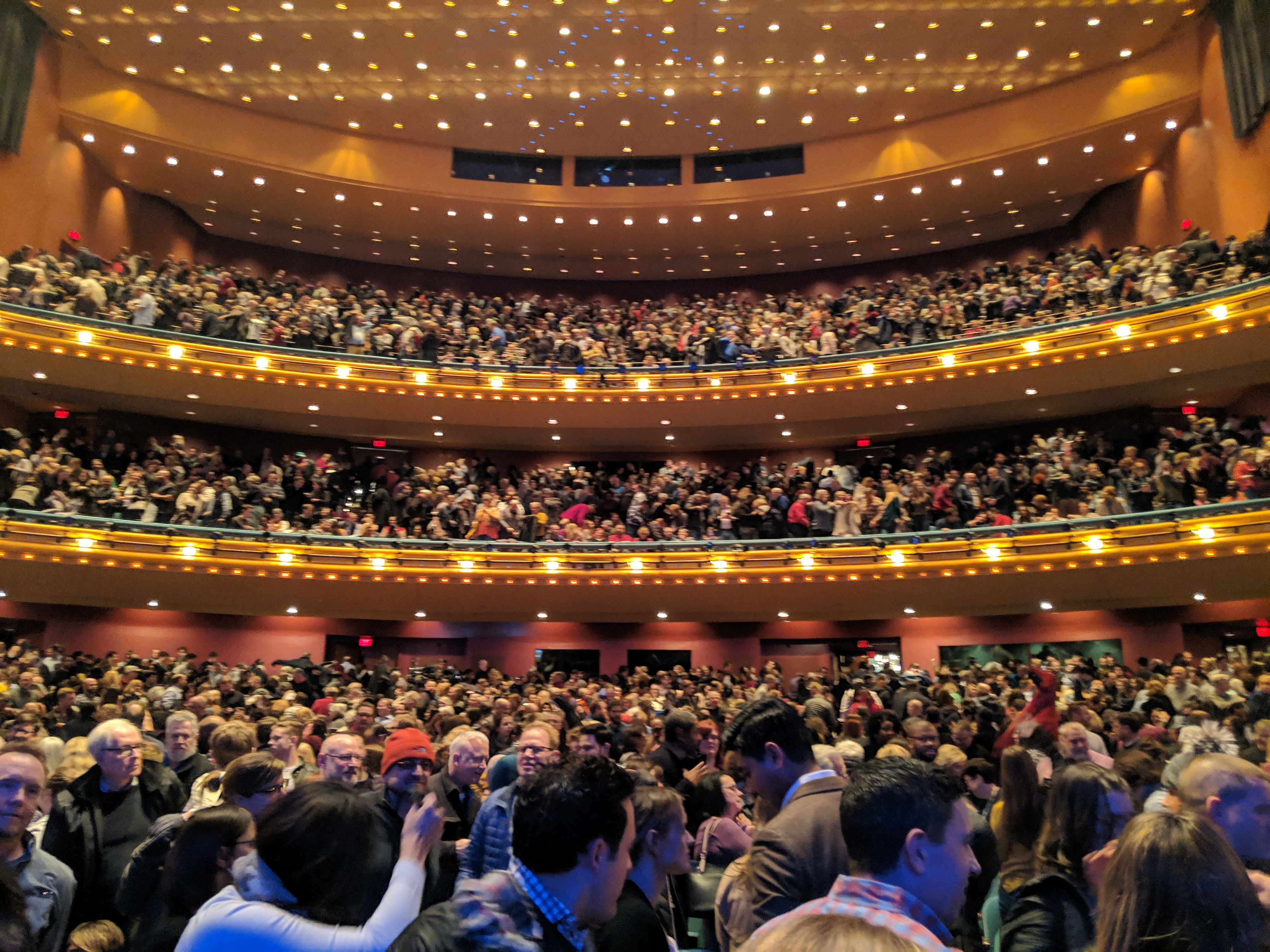 Taken at a performance of "Trevor Noah: Loud and Clear" at the Aronoff Center in downtown Cincinnati, Ohio. Photos taken on Friday February 1, 2019 during the 7:30pm show (the first of two shows that night).